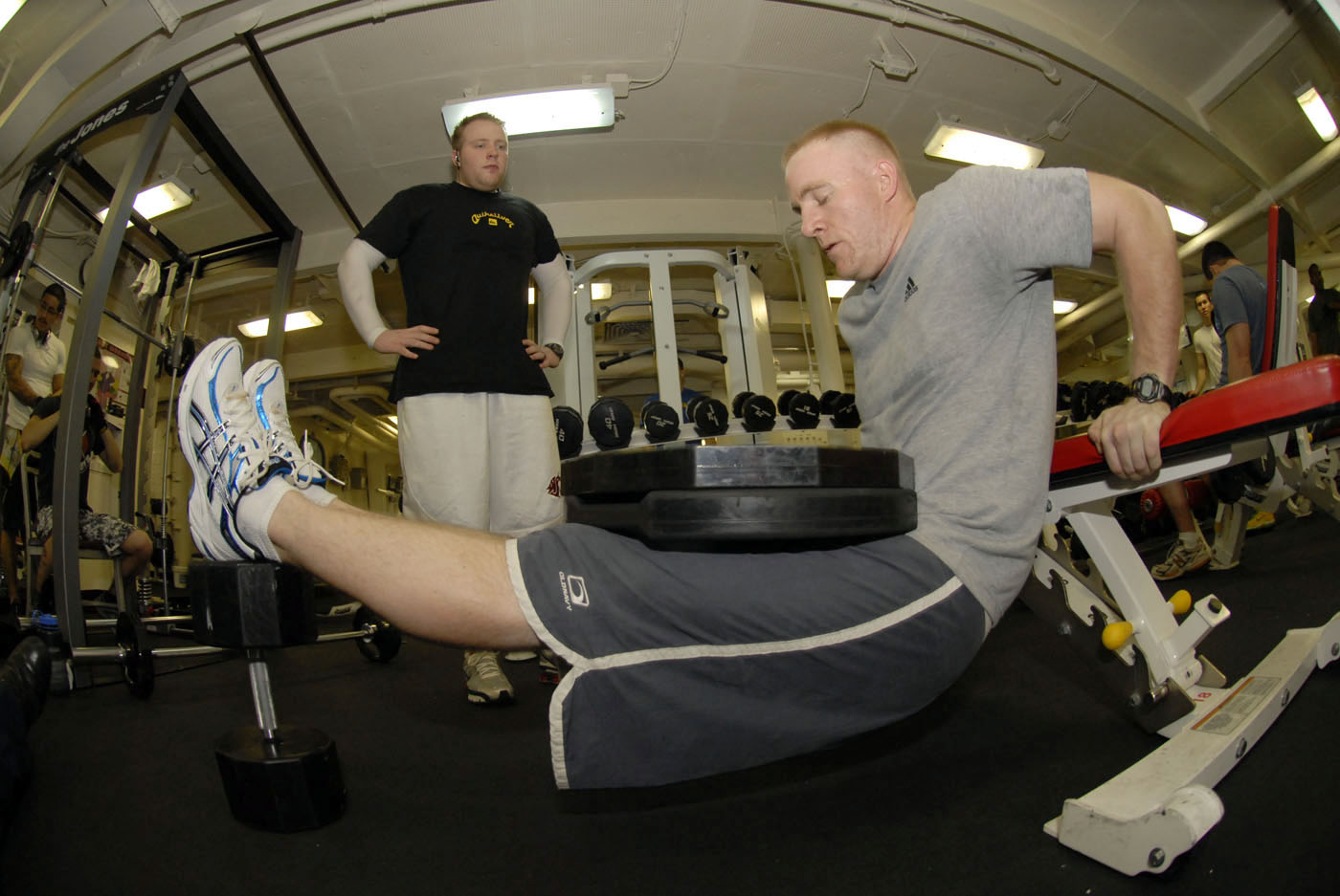 PACIFIC OCEAN (Feb. 9, 2009) Machinist's Mate 2nd Class John Brechwald, from San Jose, Calif., performs bench dips with two 45 lb weights while Machinist's Mate 2nd Class David Cook, from Lewiston, Idaho, spots for him during a workout in the ship's gym aboard the Nimitz-class aircraft carrier USS John C. Stennis (CVN 74). John C. Stennis is on a scheduled six-month deployment to the western Pacific Ocean. (U.S. Navy photo by Mass Communication Specialist 3rd Class Kenneth Abbate/ Released)